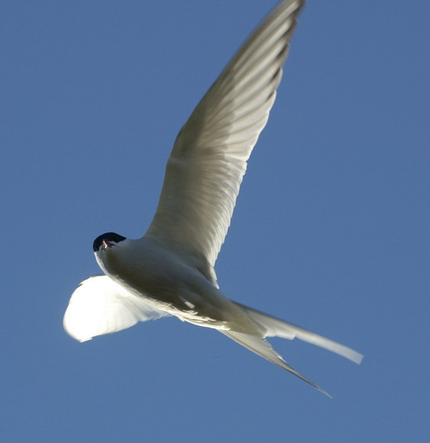 Arctic Tern (Sterna paradisaea), Ward of Clugan Large colonies of 'tirricks', as they are known in Shetland, were once a feature of the islands, but they have struggled to find sufficient food to raise chicks for most of the last 2 decades. More than usual are attempting to breed in 2009, including this bird, part of a colony of 40-50 pairs on the Ward of Clugan, but these numbers are still rather poor.